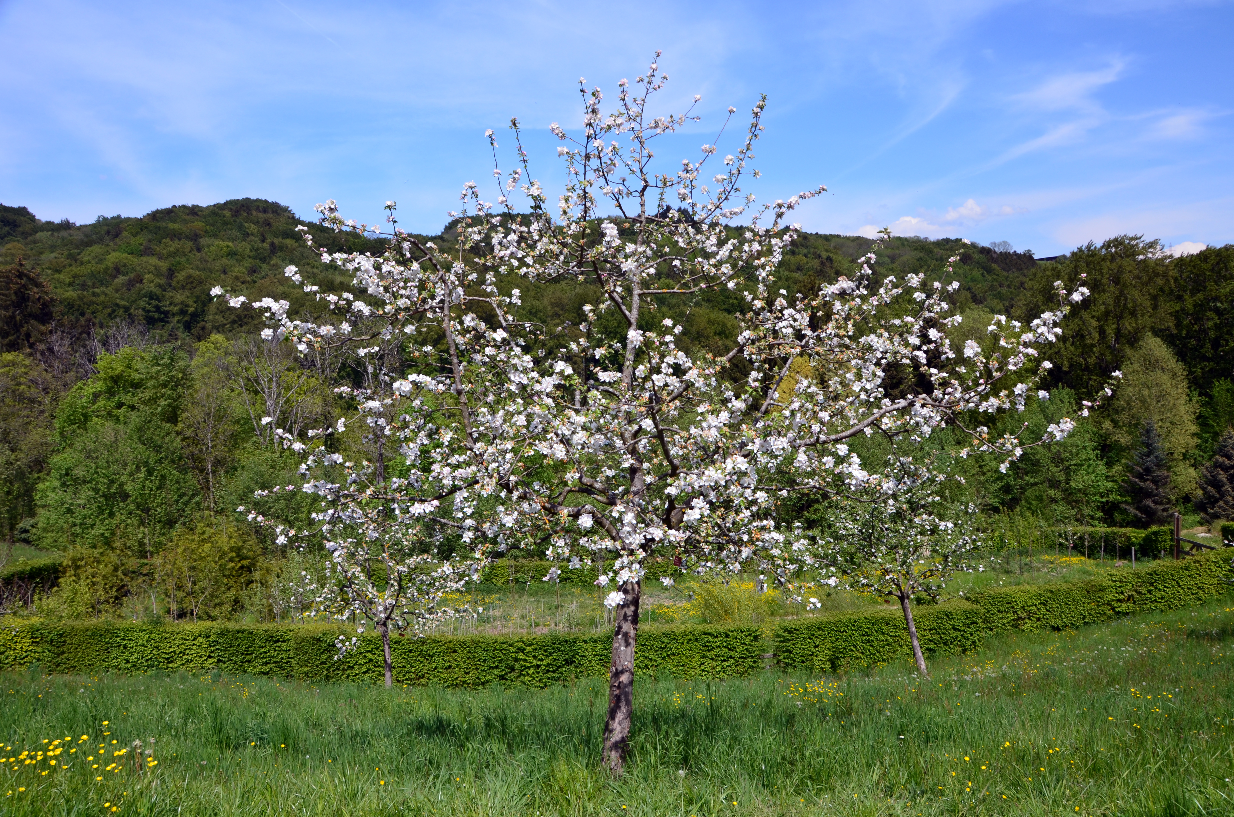 Grise vaudoise apple tree (malus domestica), in blossom, in the Aubonne's valley's national arboretum (Switzerland).